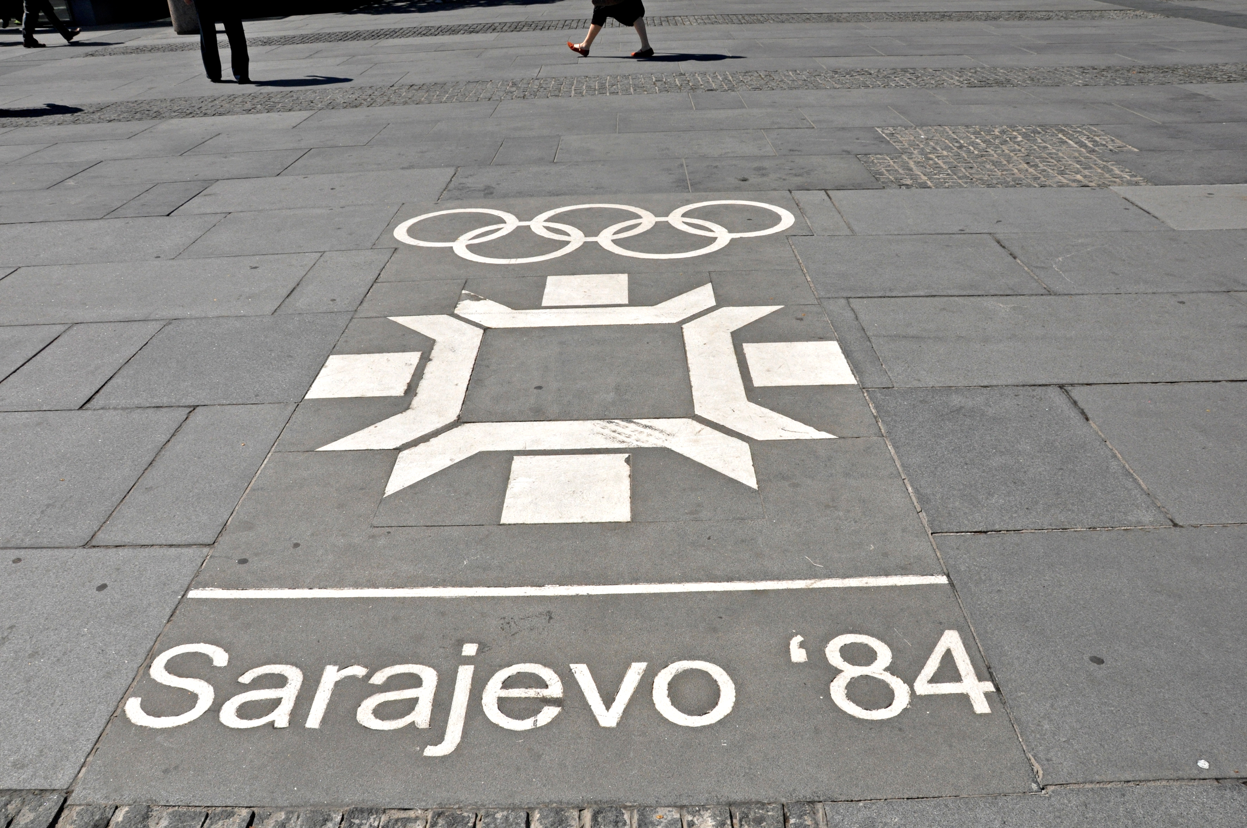 1984 Winter Olympics logo